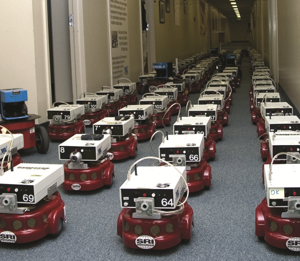 The Centibots